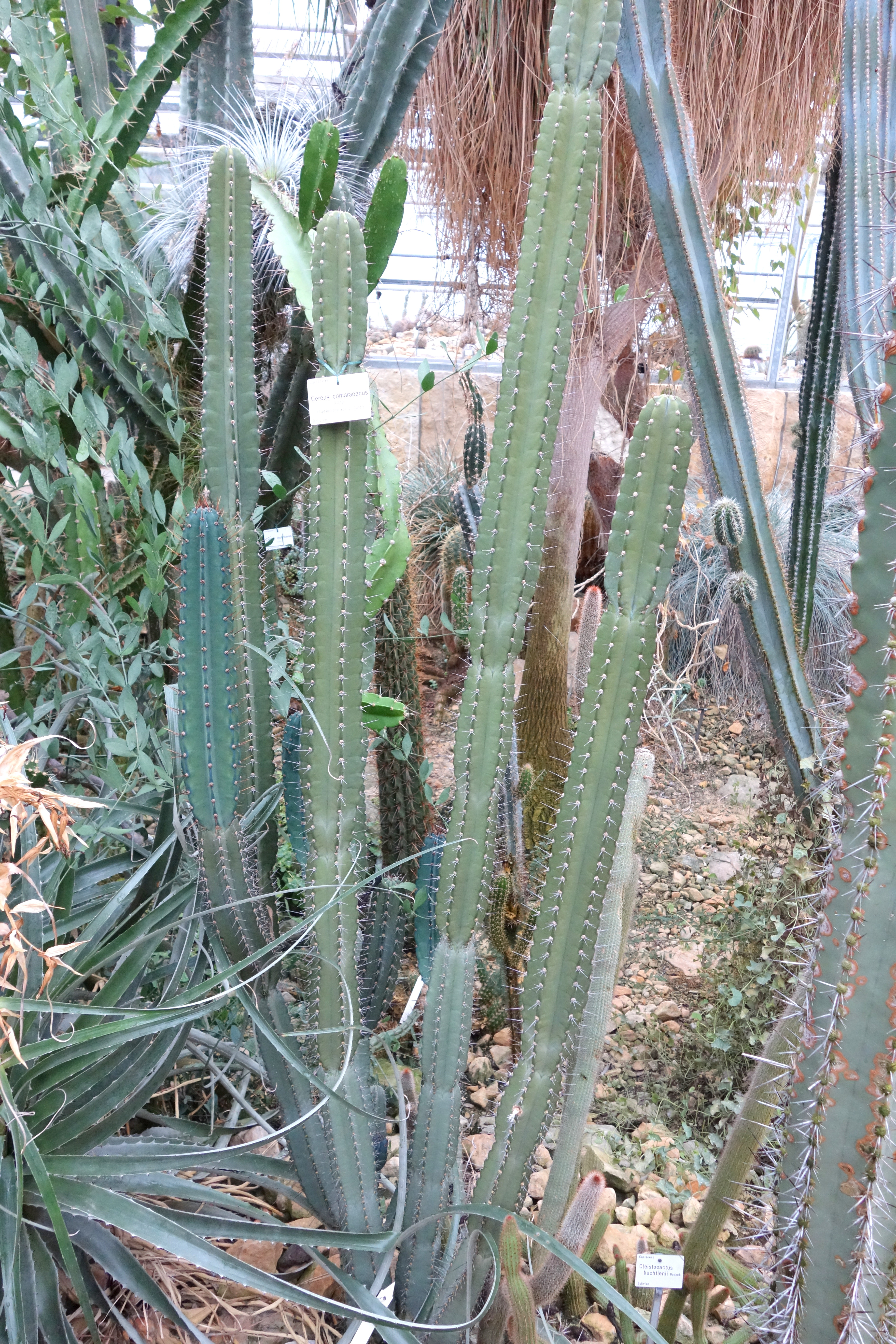 Botanical specimen in the Botanischer Garten, Dresden, Germany.